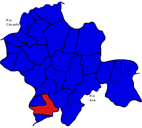 Map of Campo in Povoa de Lanhoso, Portugal